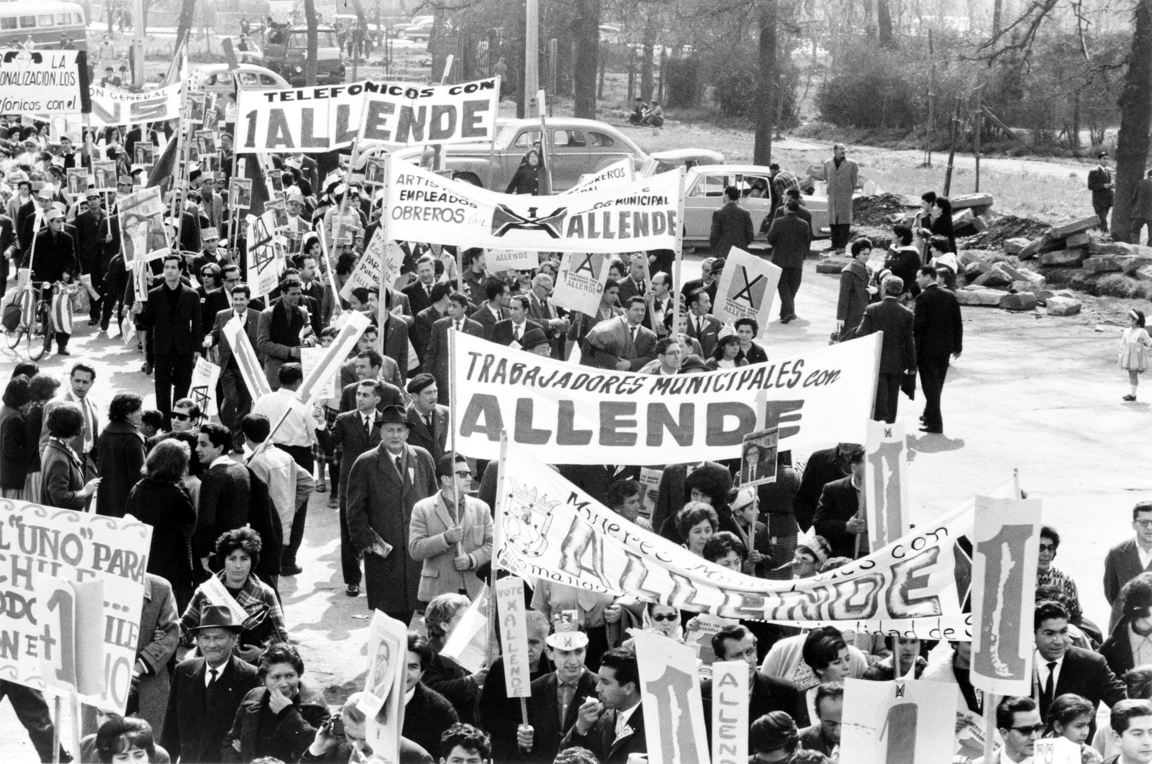 Marchers for Salvador Allende. A crowd of people marching to support the election of Salvador Allende for president in Santiago, Chile.